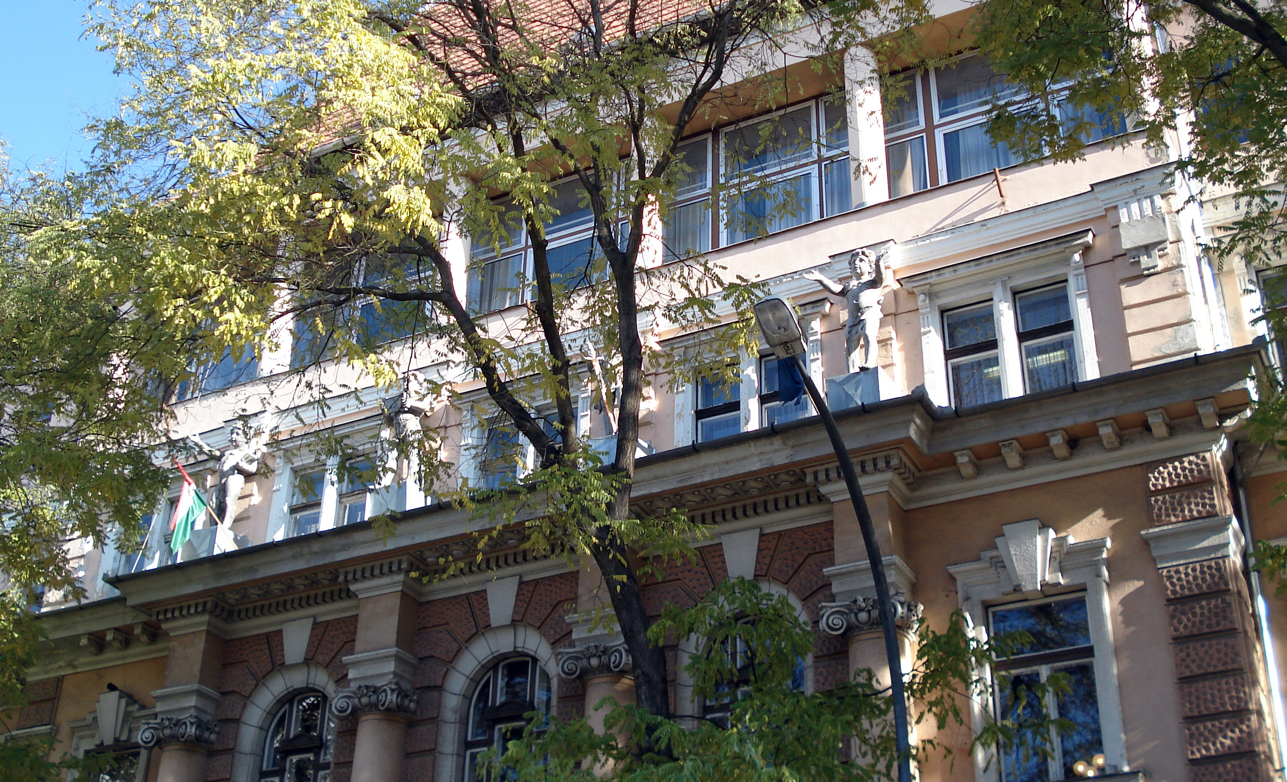 Statues in the County Court House, Miskolc, Hungary.